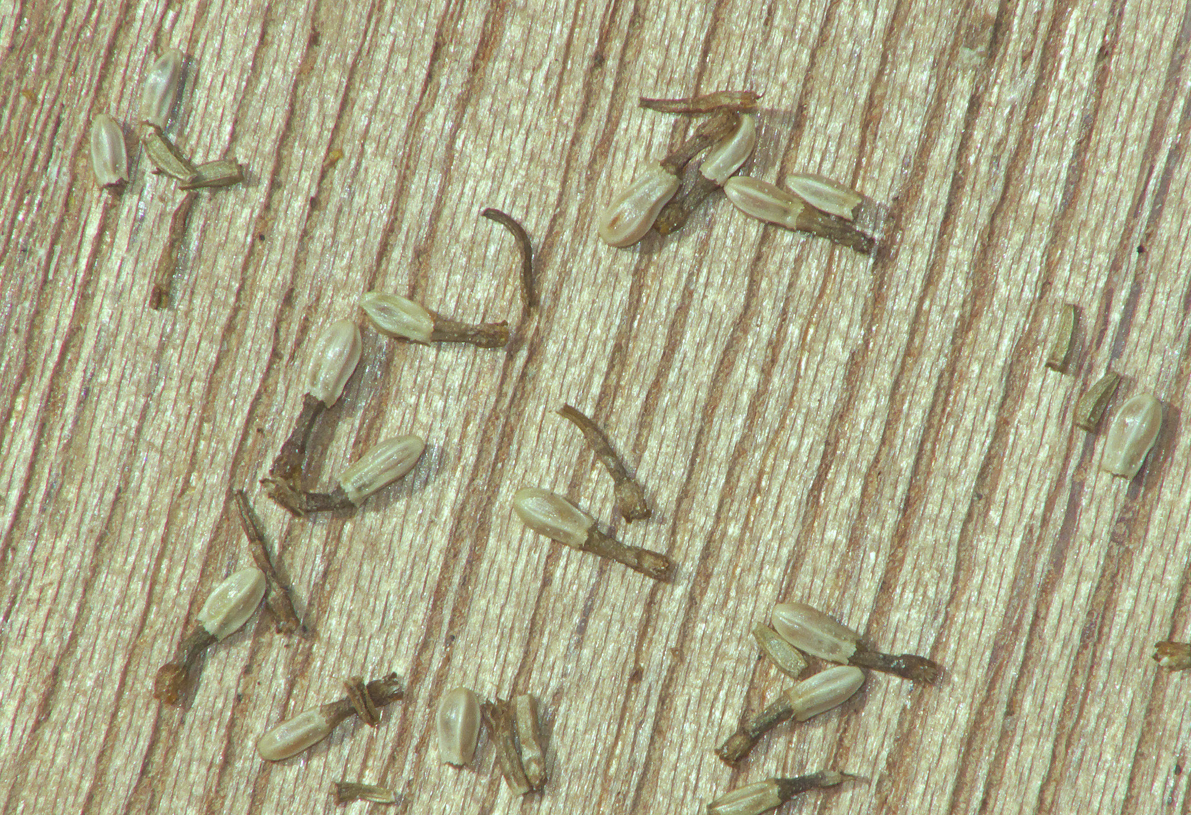 Tanacetum vulgare achenes, length: 2 mm